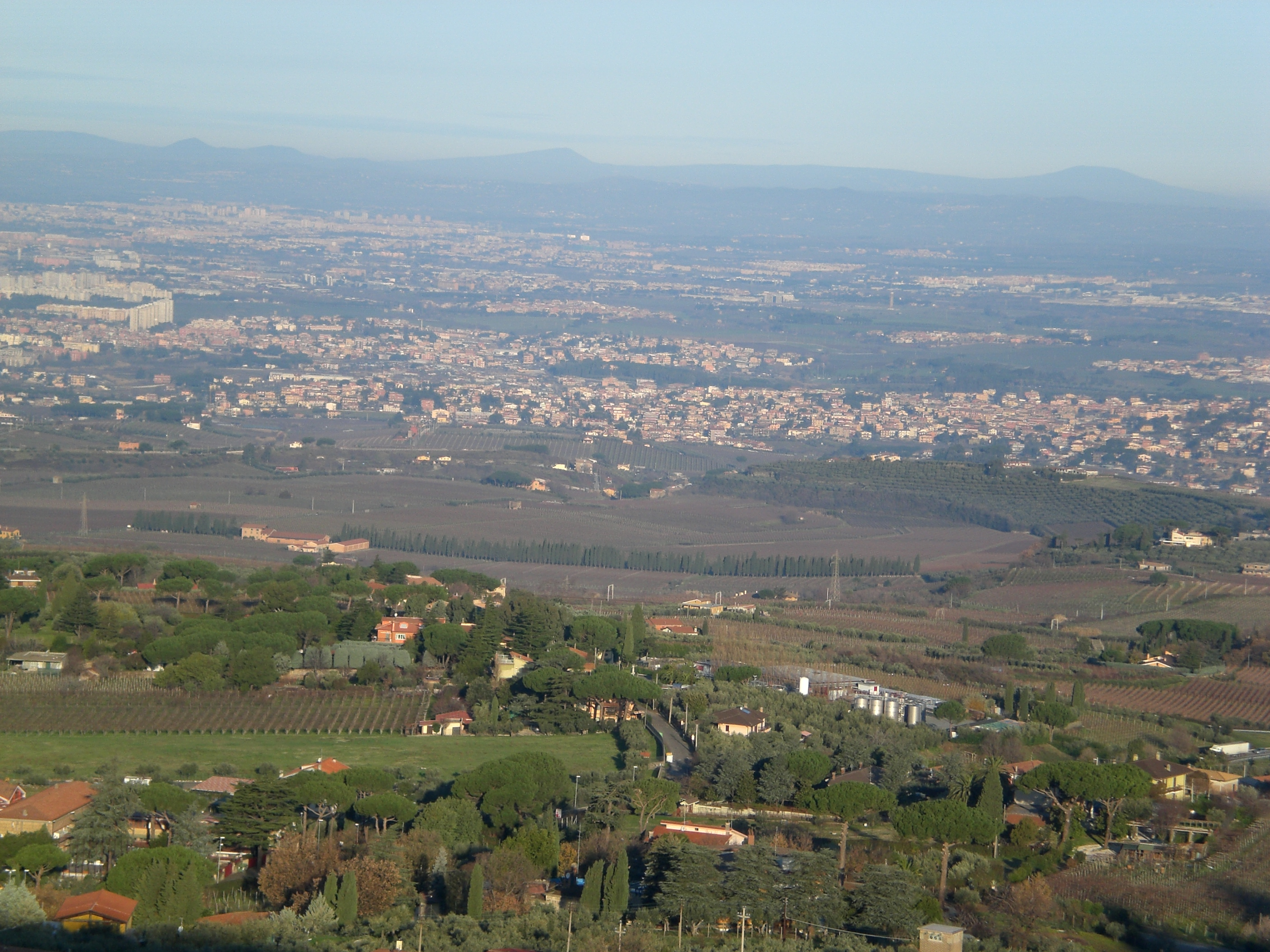 Prataporci site from Monteporzio, Italy.